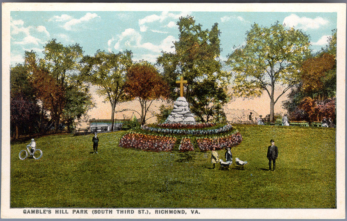 Description: Situated at the southern extremity of 3rd and 4th street, Gamble's Hill Park, though limited in area, commands a magnificent panoramic view of the falls of the James River and the surrounding countryside. Winding the foot of the hill is the old James River and Kanawha Canal, the tow path of which being now occupied by a division of the C & O Ry. The stone cross appearing in this view was erected to commemorate the first visit of white men to [the] present site of Richmond, in 1607 when Capt. John Smith and party ascended the river as far as the falls. Manufacturer: Southern Bargain House, Richmond, Va. Date Postmarked: Not postmarked. Rights: This item is in the public domain. Acknowledgement of the Virginia Commonwealth University Libraries as a source is requested. Reference URL: Collection: Rarely Seen Richmond: Early twentieth century Richmond as seen through vintage postcards